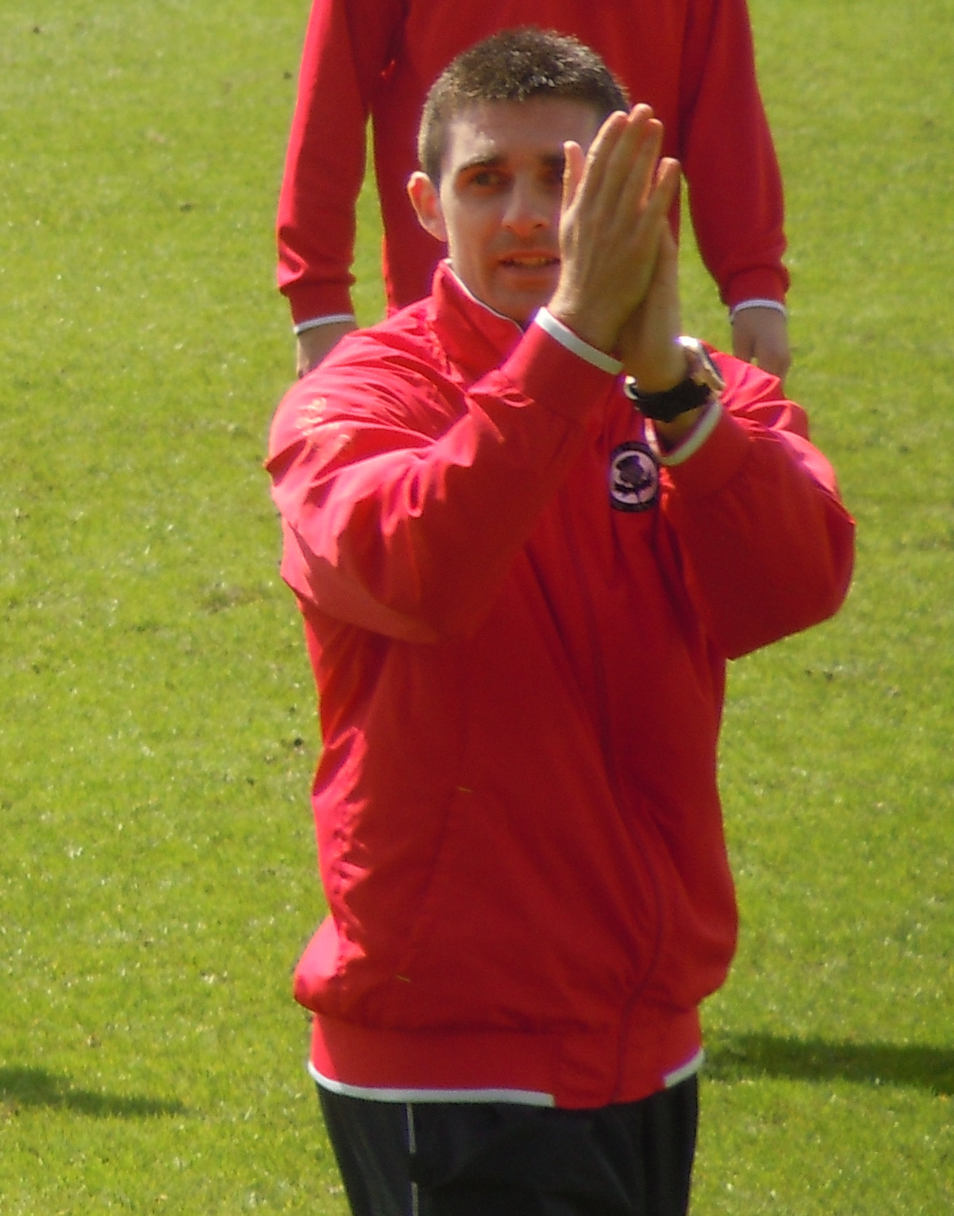 Doolan applauds the Thistle supporters vs RossCo